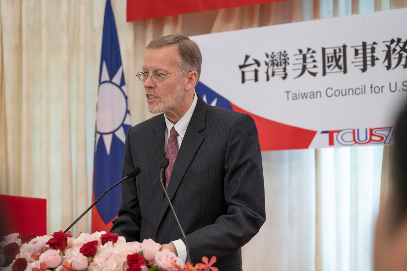 Official Photo by Wang Yu Ching / Office of the President